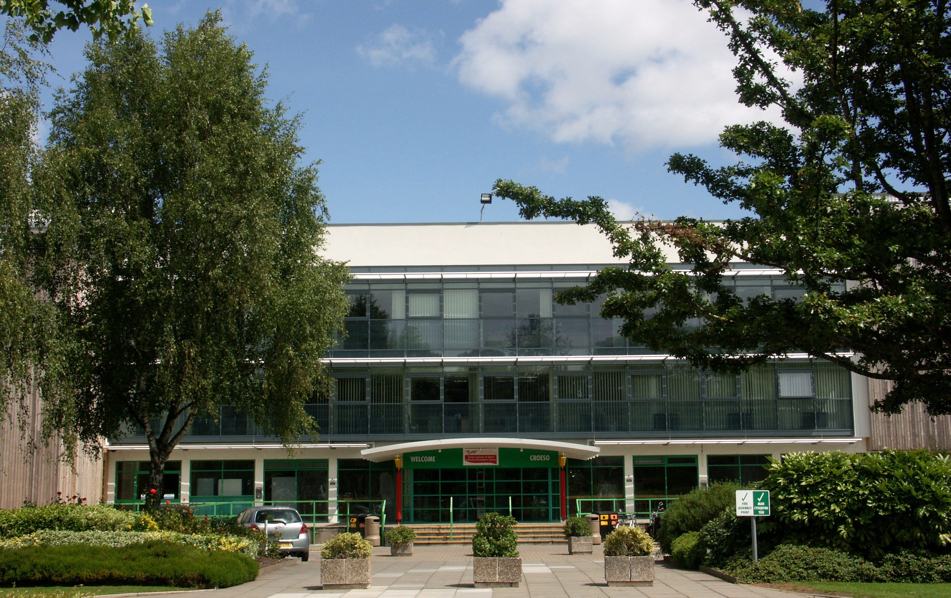 Welsh Institute of Sport, Cardiff - entrance